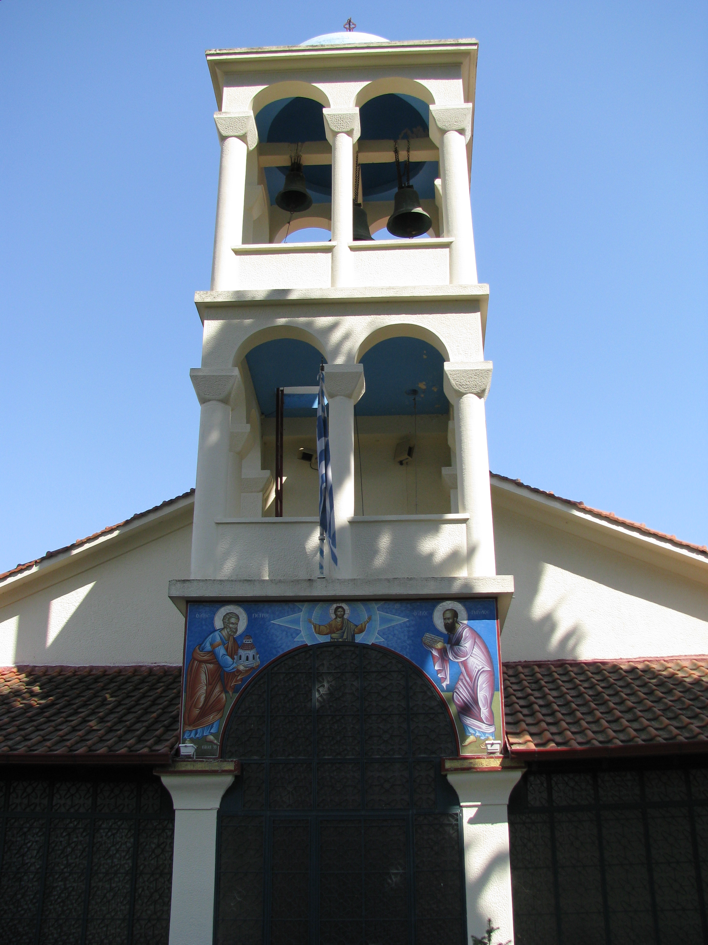 Catholic church of Gianitsa/Enidje Vardar, Aegean Macedonia